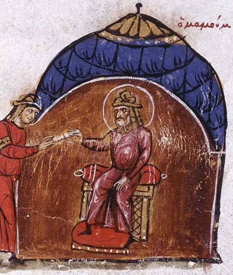 Abbasid Caliph al-Mamun sends an envoy to Byzantine Emperor Theophilos